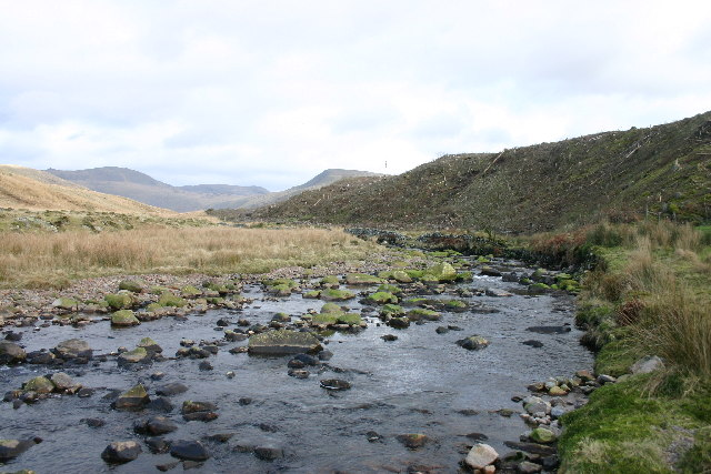 River Bleng. Looking NE, from where the river enters Blengdale Forest.